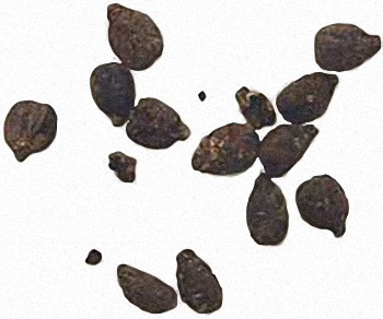 I shoot the picture.